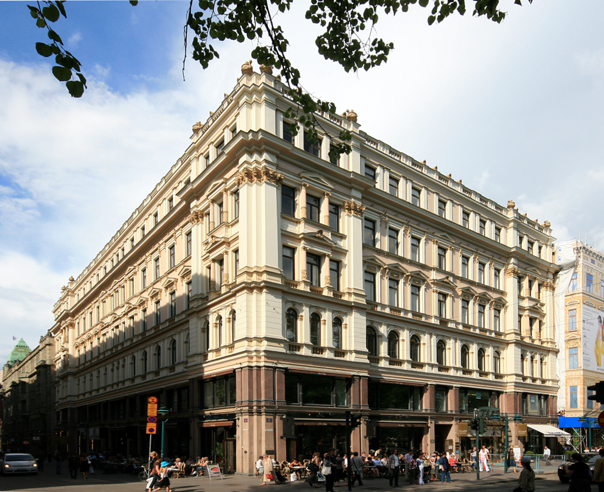 Mikonkatu 1 / Pohjoisesplanadi 33, Helsinki. Architect: Selim A. Lindqvist. Built 1890.